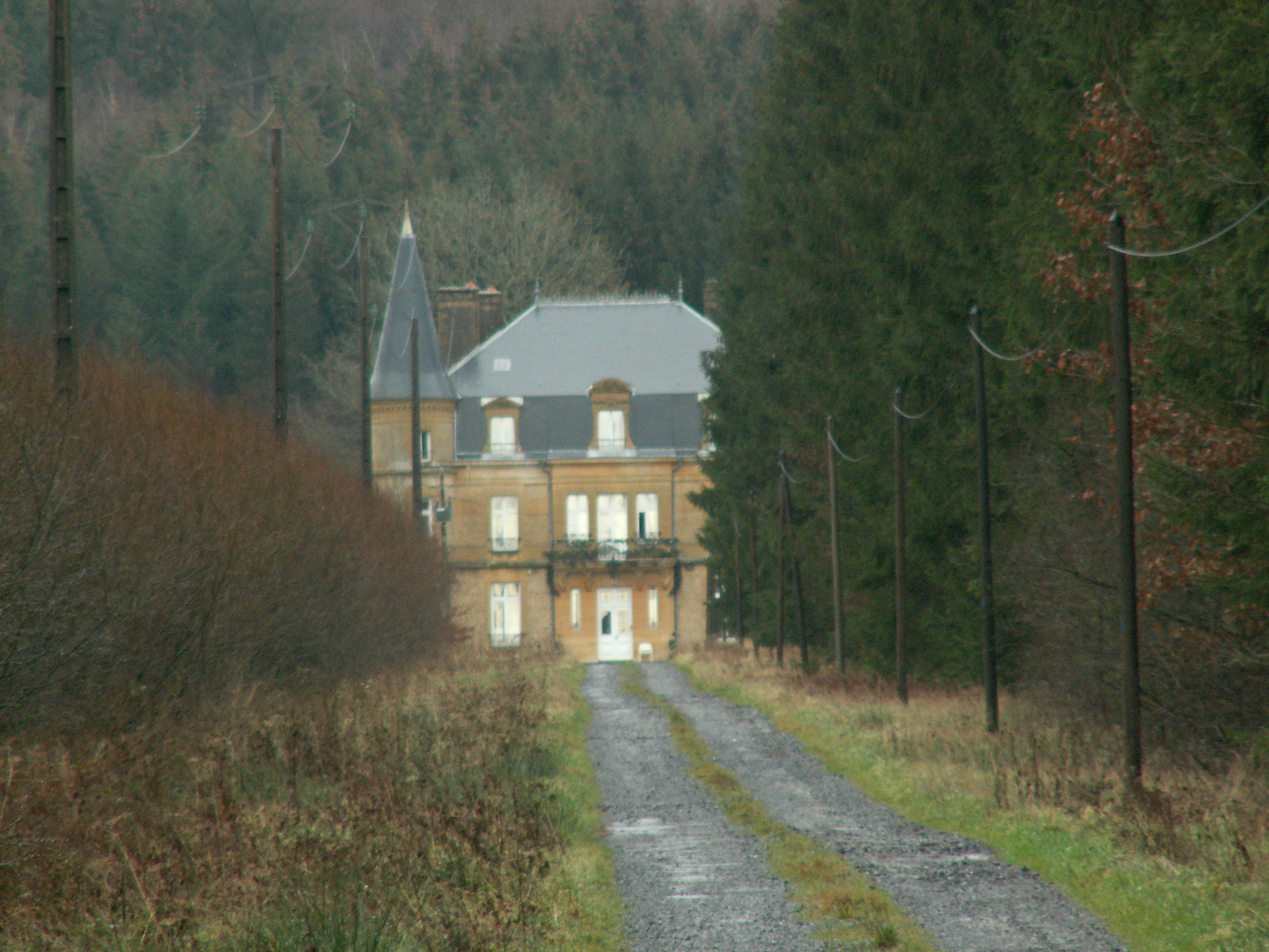 Chateau du Sautou, where lived Michel Fourniret